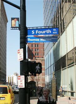 "Thomas Merton Square" sign and commemorative plaque, Louisville, KY